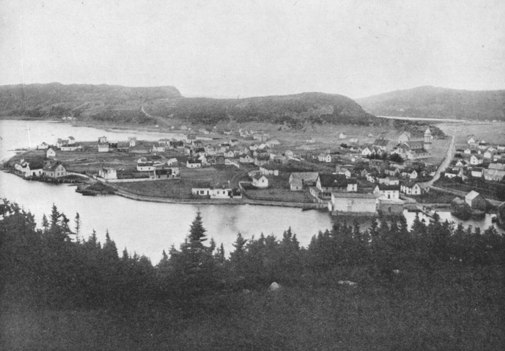 View of Placentia, Newfoundland